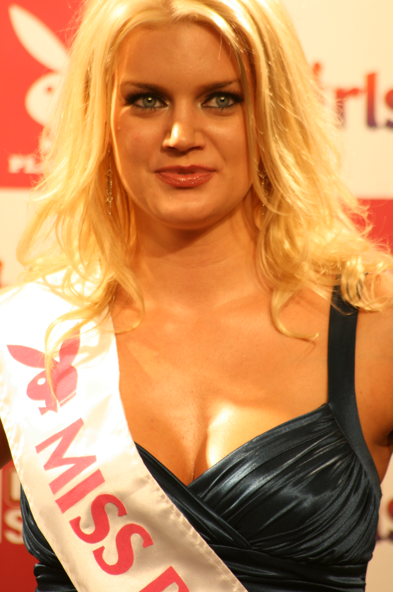 March 2009 Playmate Jennifer Pershing on 13 September 2009